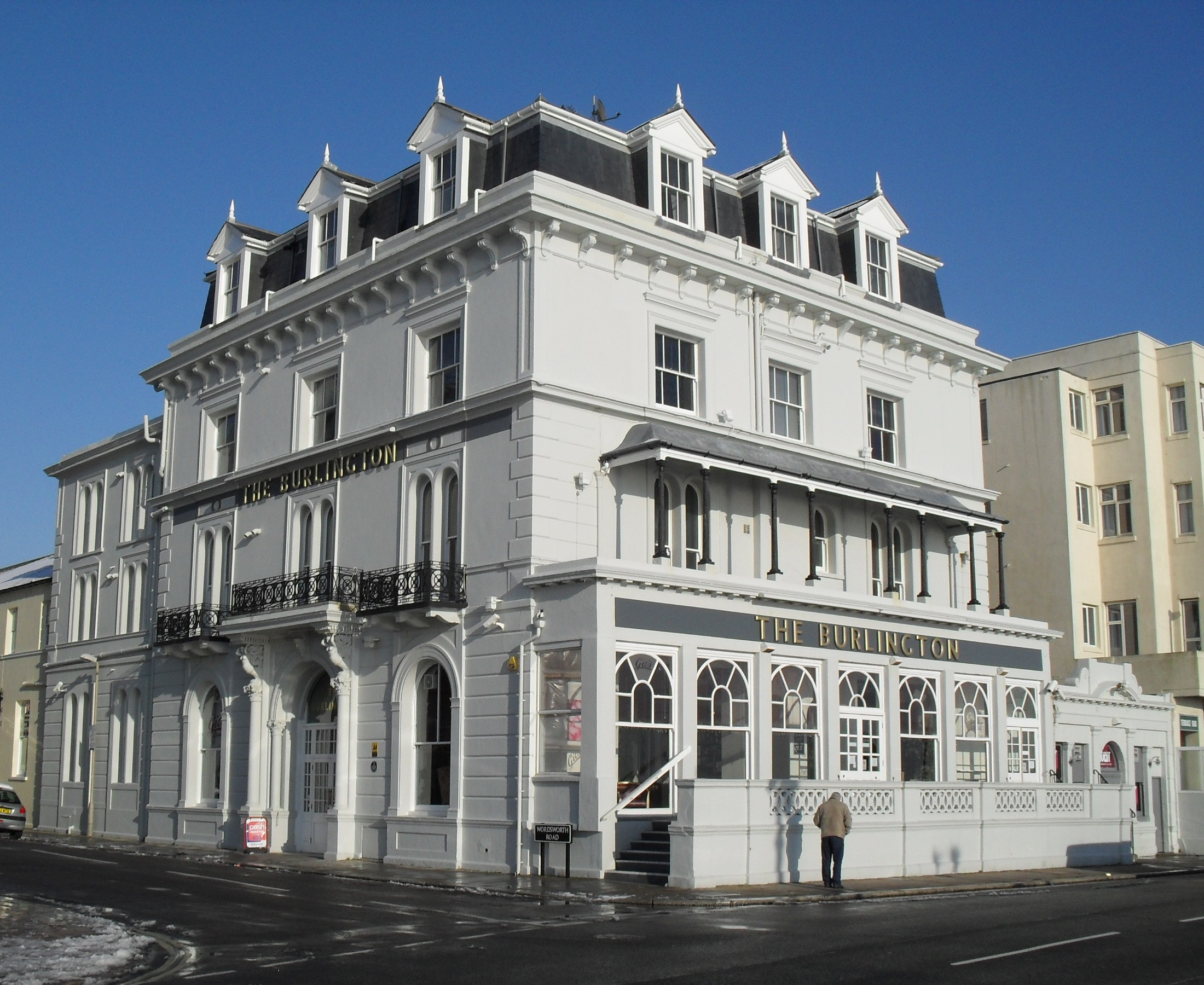 Burlington Hotel, Marine Parade/Heene Terrace, Heene, Worthing, West Sussex, England. An Italianate-style hotel at the south end of Heene Terrace, built in 1865. Listed at Grade II by English Heritage (IoE Code 433269)